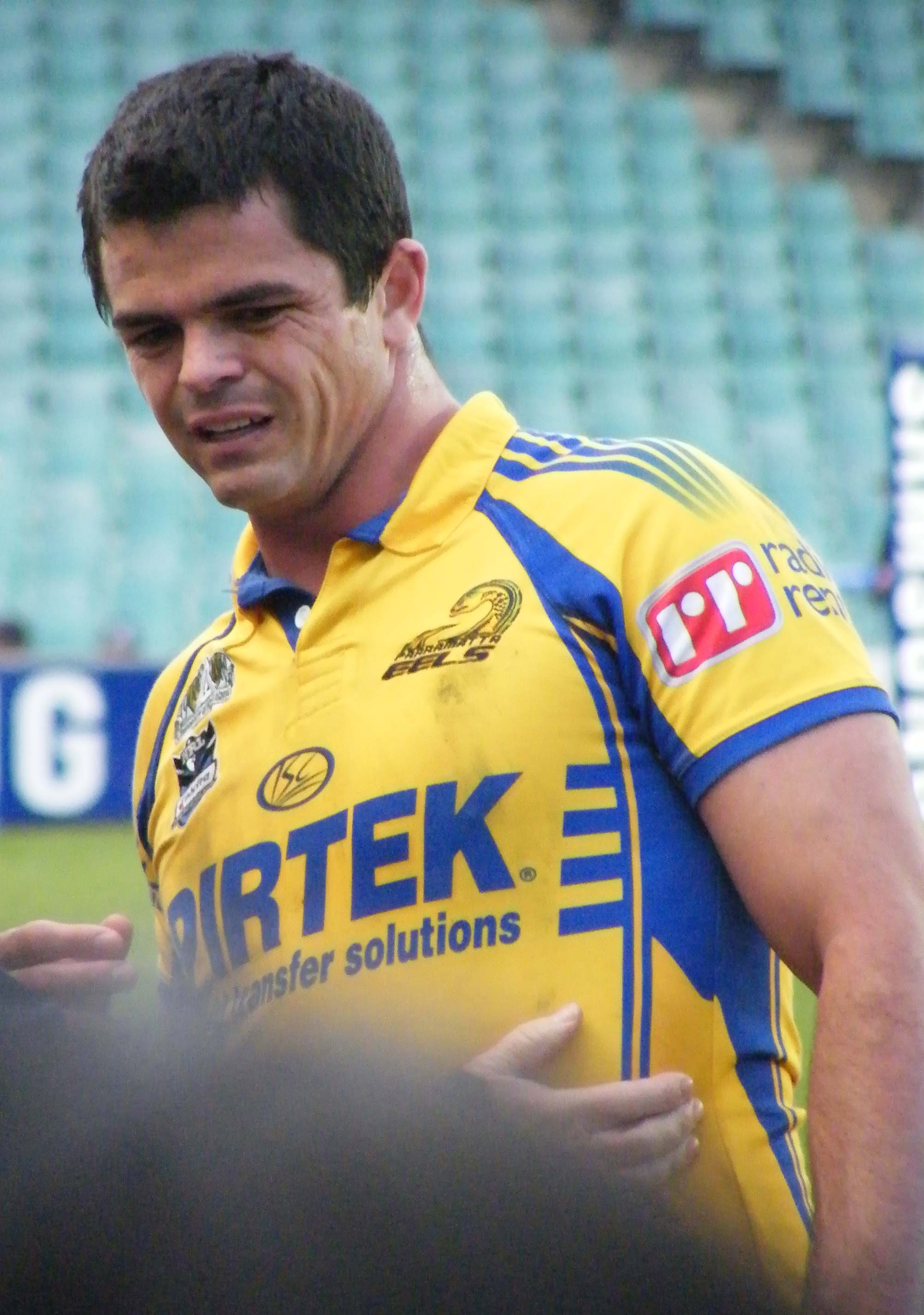 Parramatta forward Daniel Wagon